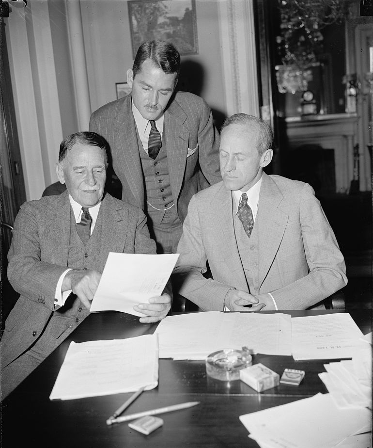 Discussion of the legislation for U.S. Territories, Washington, D.C., April 28, 1938. Before being called to testify, Governors Blanton Winship (left) of Porto Rico, and Lawrence W. Cramer (standing) of the Virgin Islands, conferred with Senator Millard Tydings (D-Maryland), Chairman of the Senate Territories and Insular Affairs Committee, today just before the Committee met to consider legislation for U.S. Territories. Both governors are in Washington to make a report to the government.